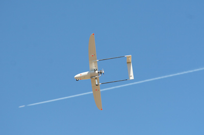 UAVFACTORY LTD. PENGUIN B